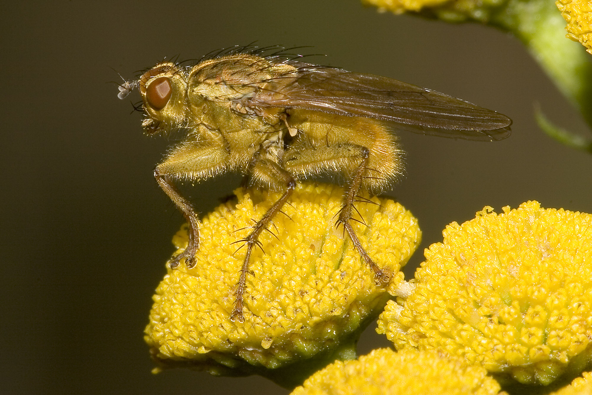 Please report references to .